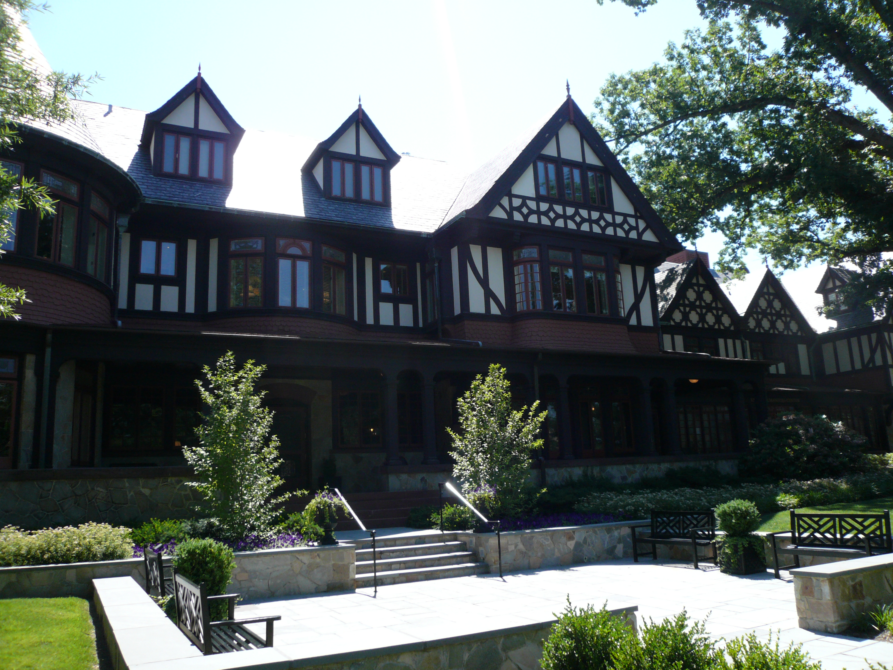 This is the building that houses the Admissions Dept at Loyola College in Maryland.